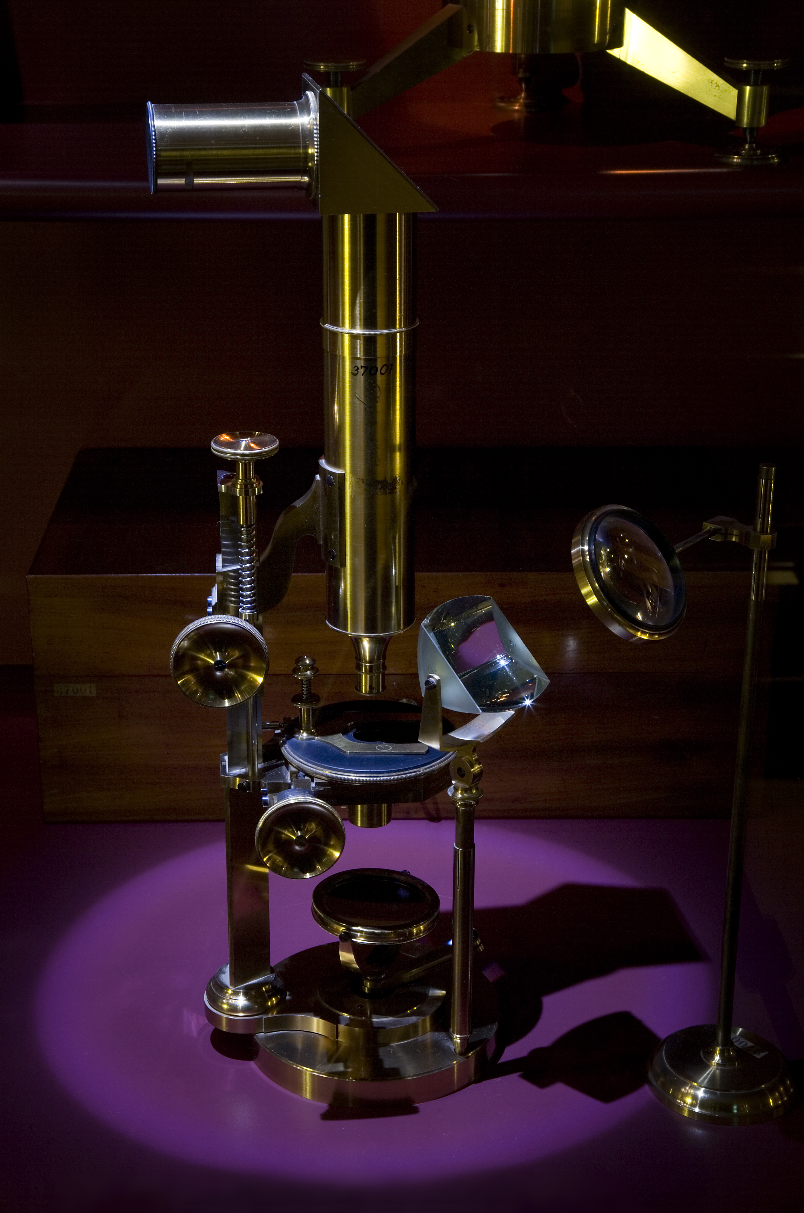 Plossl bronze microscope Vienna 1868